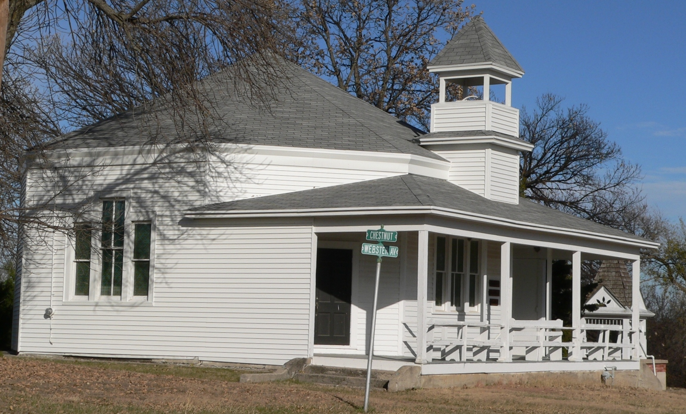 Naponee Heritage Center in Naponee, Nebraska, seen from the southwest. The eight-sided building is the former First Congregational Church; it was built in 1887. It is listed in the National Register of Historic Places.